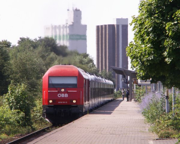 Train operated by Nord-Ostsee-Bahn, a subsidiary company of Connex stopping in Husum, photographed by me (the locomotive seems to be a borrowed Eurorunner "ÖBB type 2016" AKA "Herkules")